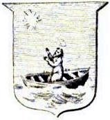 Coat of arms of the Diocese of the Isles.